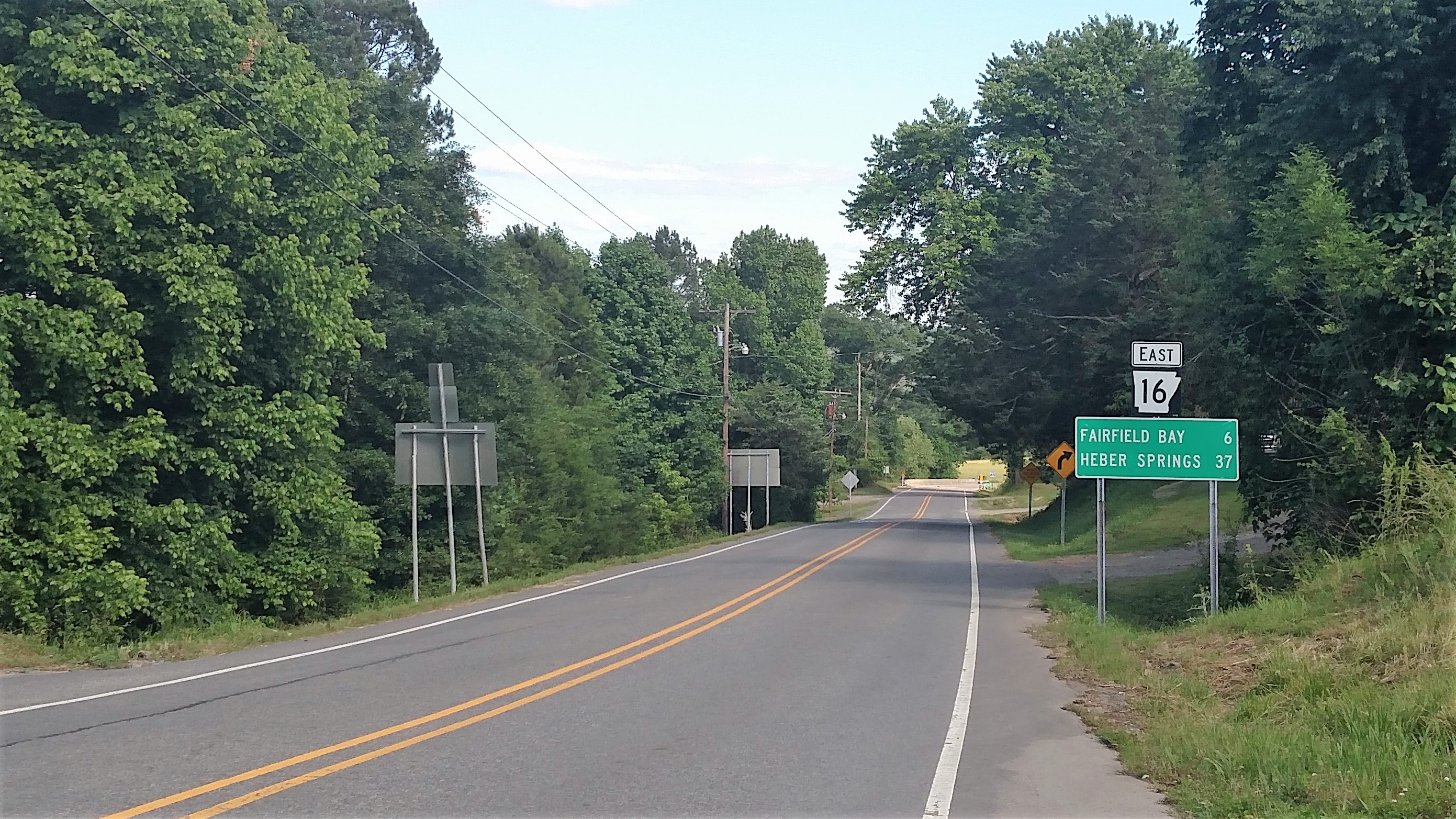 First reassurance marker east of the Highway 9 overlap ending in Shirley, Arkansas